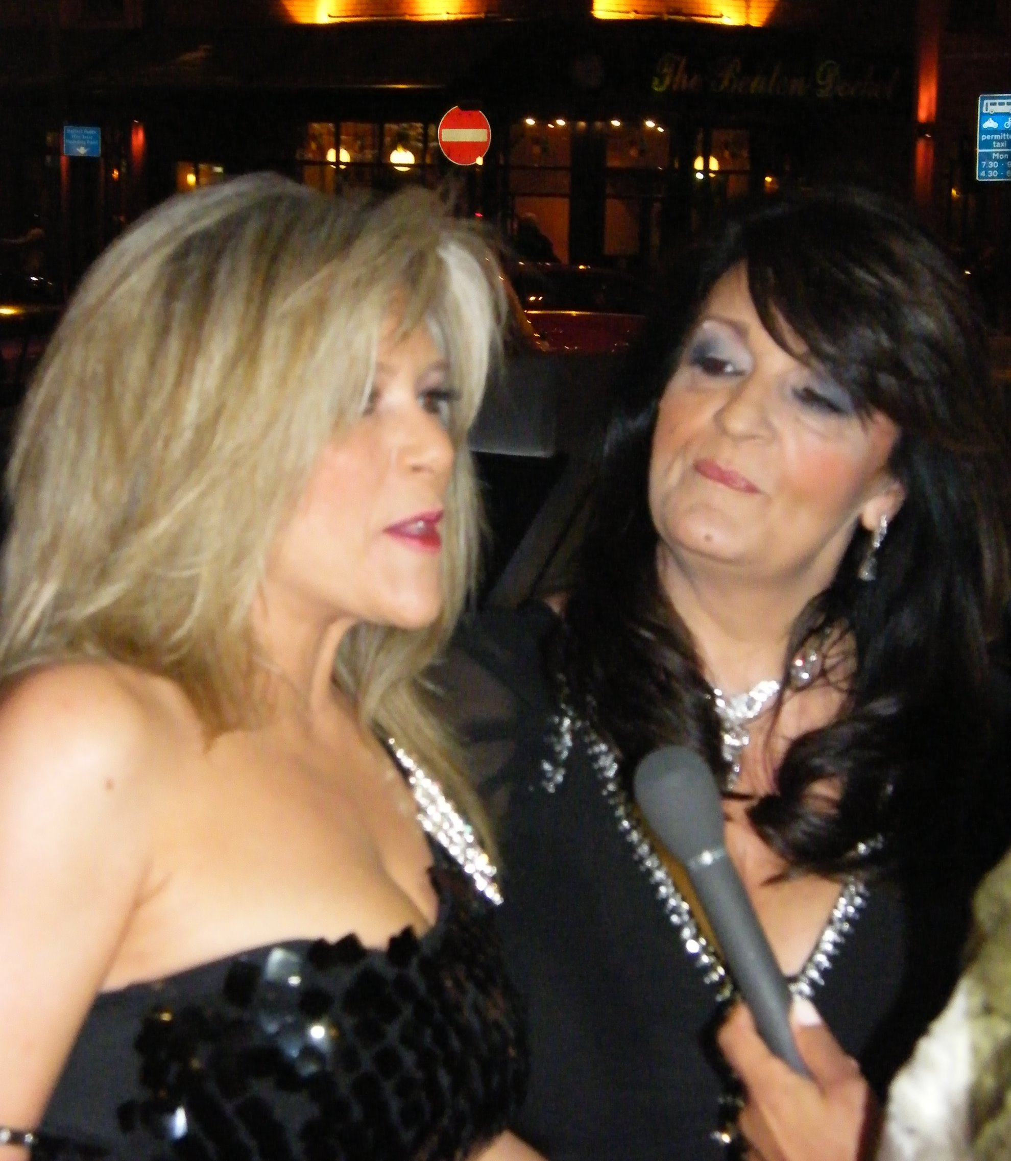 Samantha Fox (left) and her partner Myra Stratton at the Fate Awards in Belfast